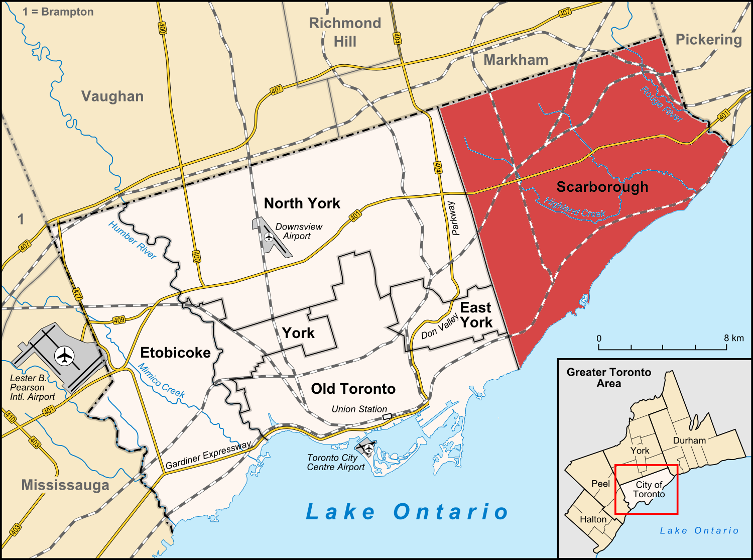 Map of Toronto